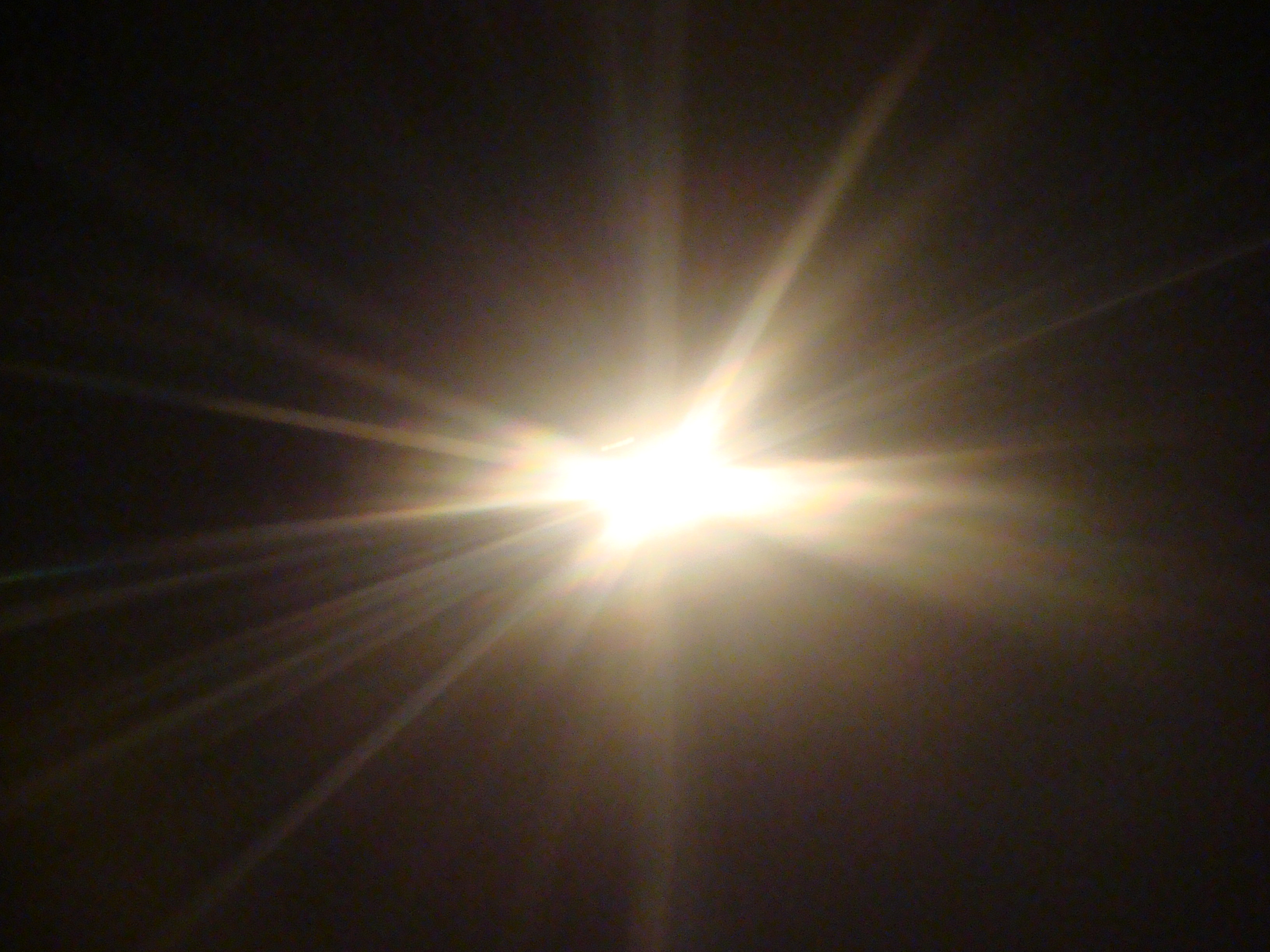 A powerful light shining in the dark.